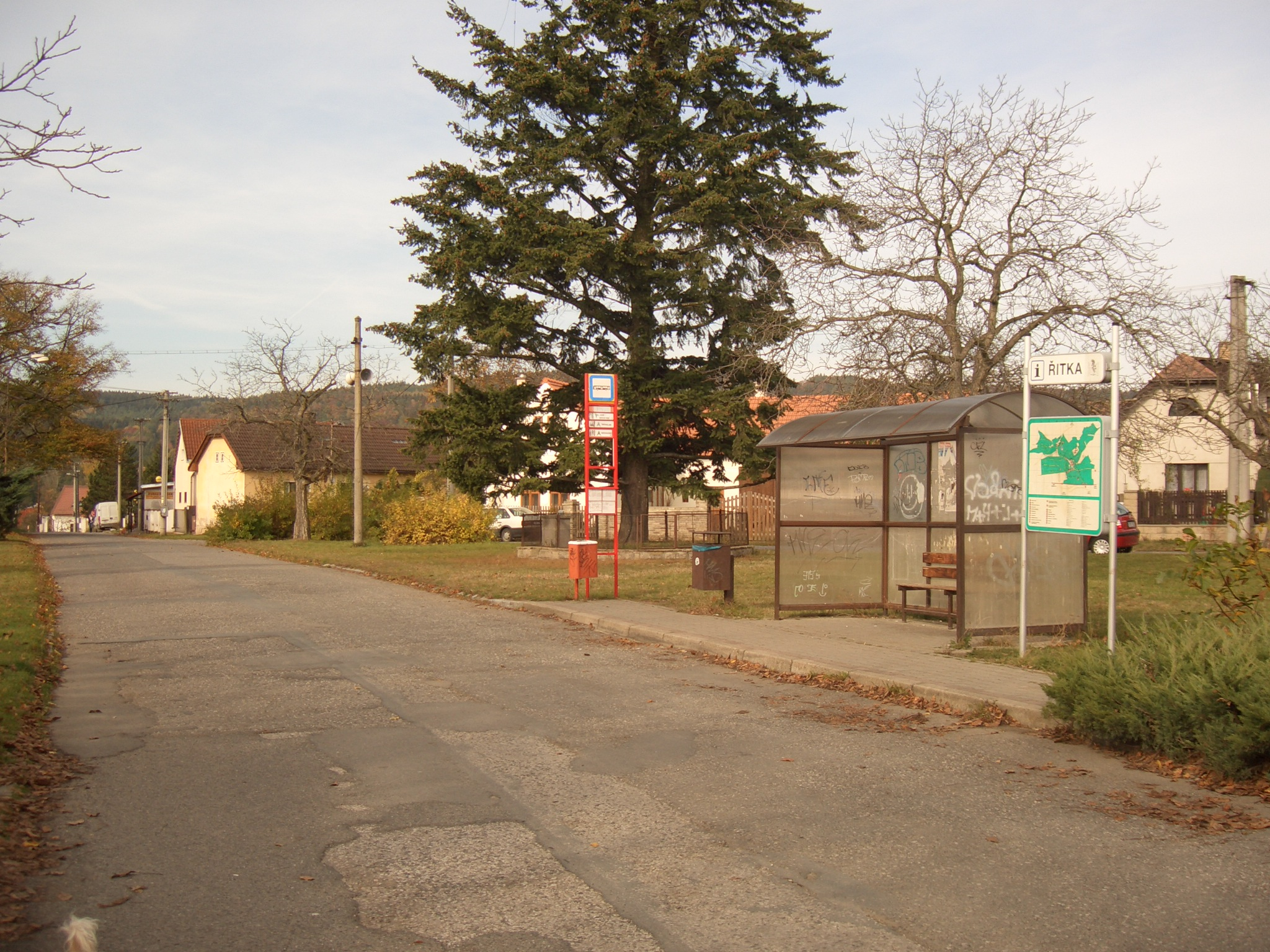 Bus stop at square in Řitka, Prague-West district